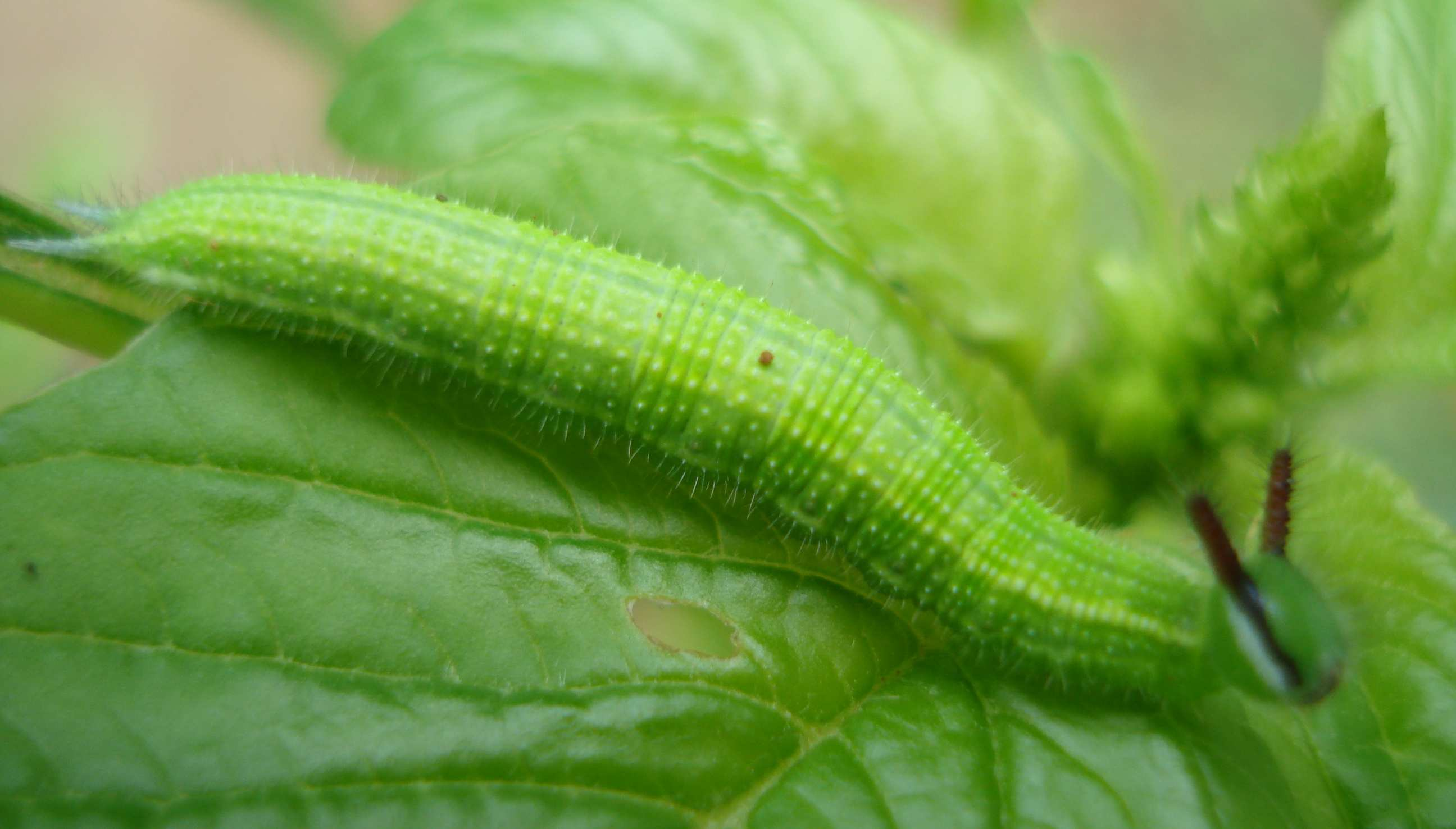 A kind of Larva